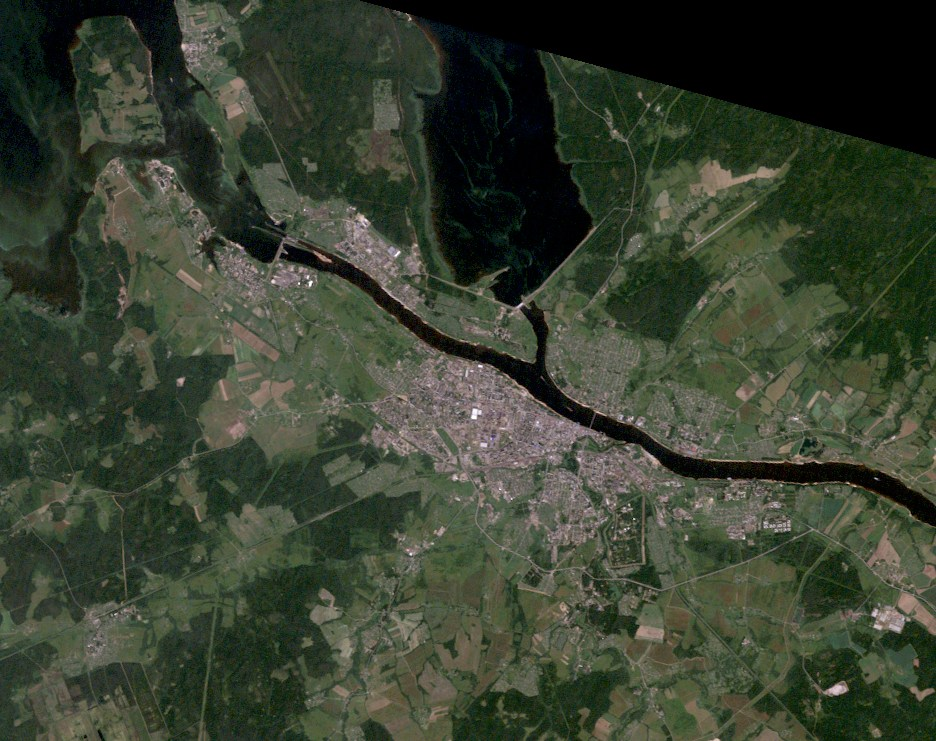 Rybinsk, Russia, city and vicinities, satellite image LandSat-5, 2011-07-11, near natural colors, 30 m resolution